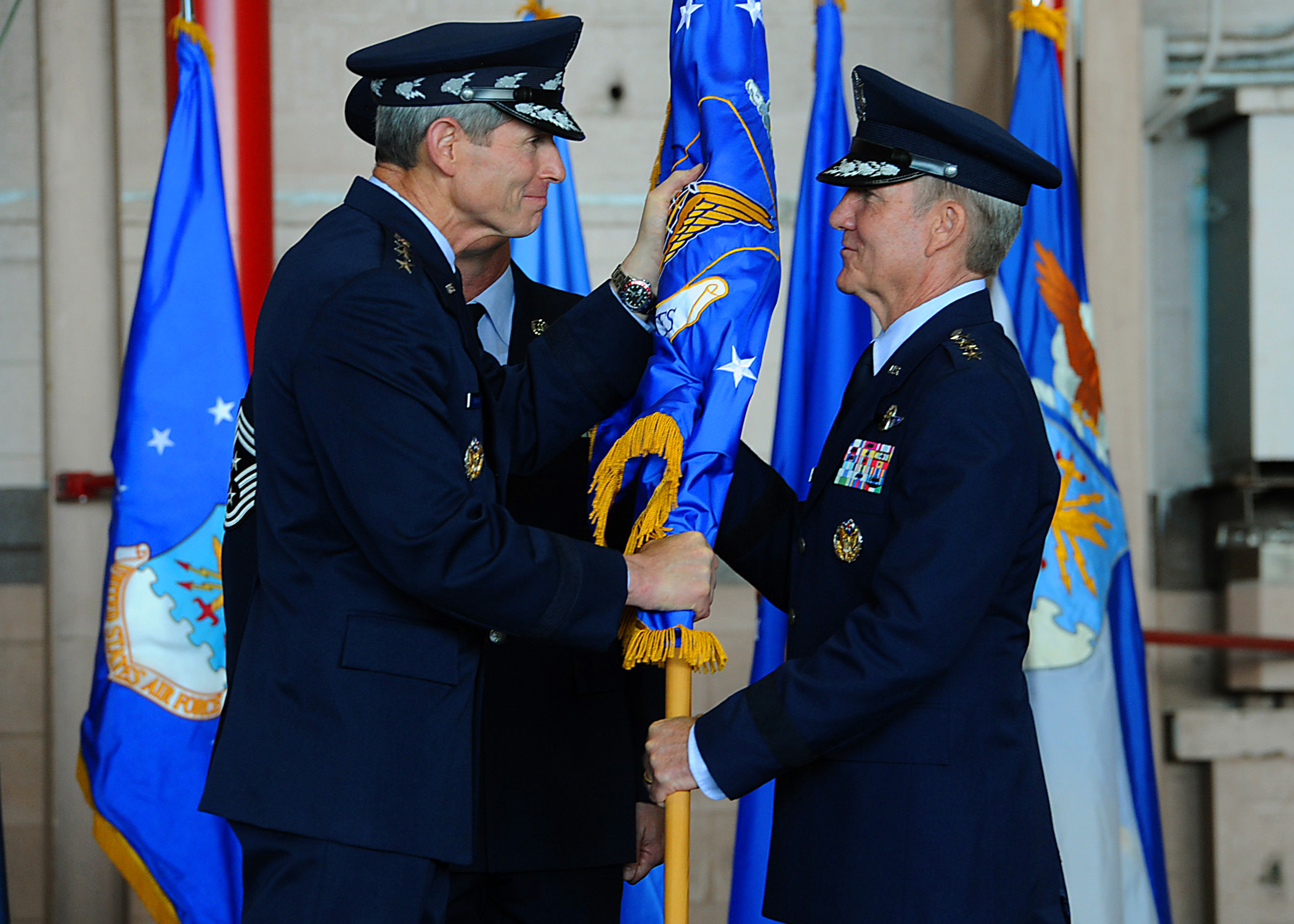 Air Force Chief of Staff Gen. Norton Schwartz presents the Pacific Air Forces flag to new PACAF commander Gen. Herbert “Hawk” Carlisle, signifying the transfer of command at Joint Base Pearl Harbor-Hickam, Hawaii, Aug. 3, 2012. Carlisle is the successor to Gen. Gary North, who took command of Pacific Air Forces in August 2009. (U.S. Air Force photo/Tech. Sgt. Jerome S. Tayborn)